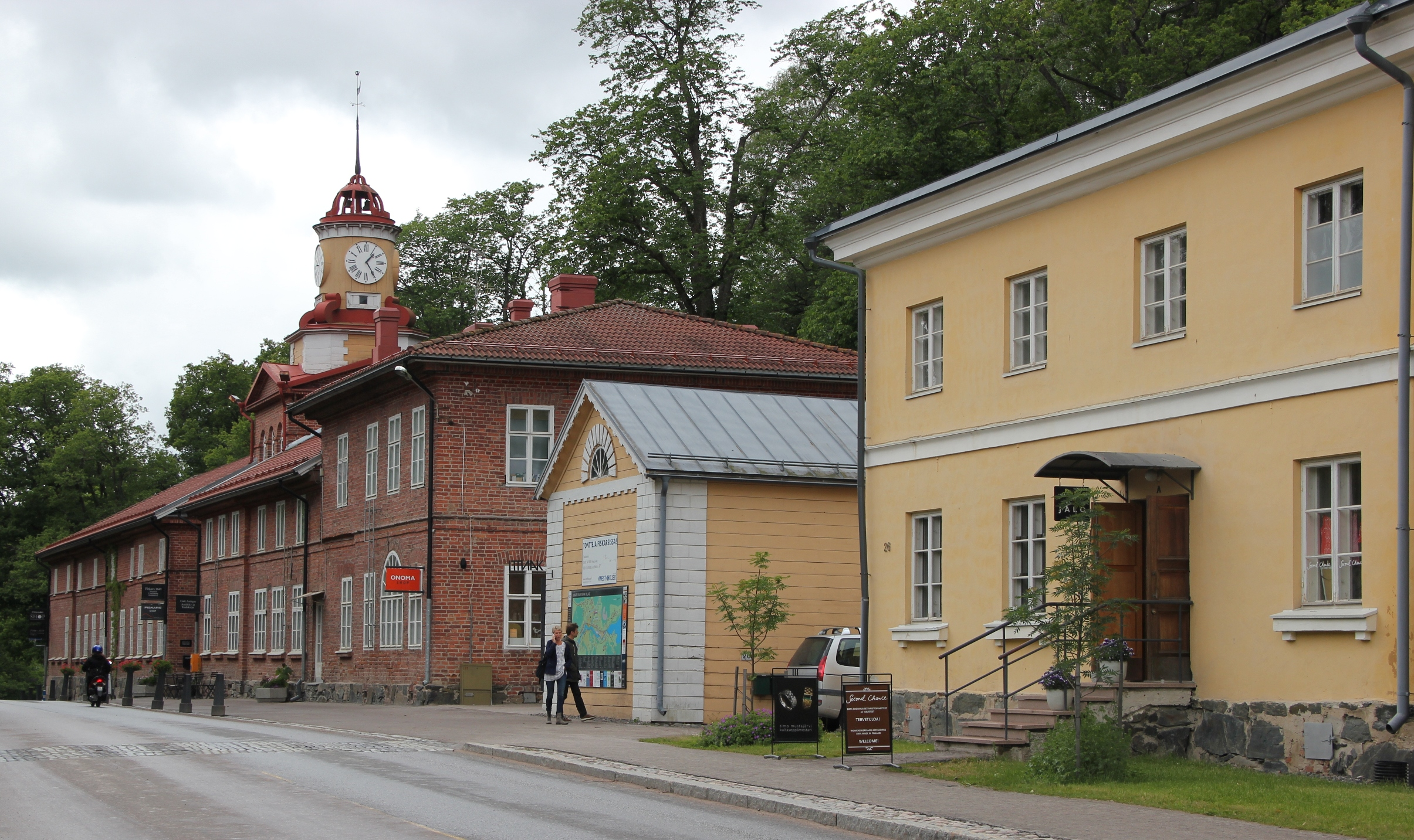 Buildings in Fiskarsintie Road, Fiskars, Pohja, Raseborg